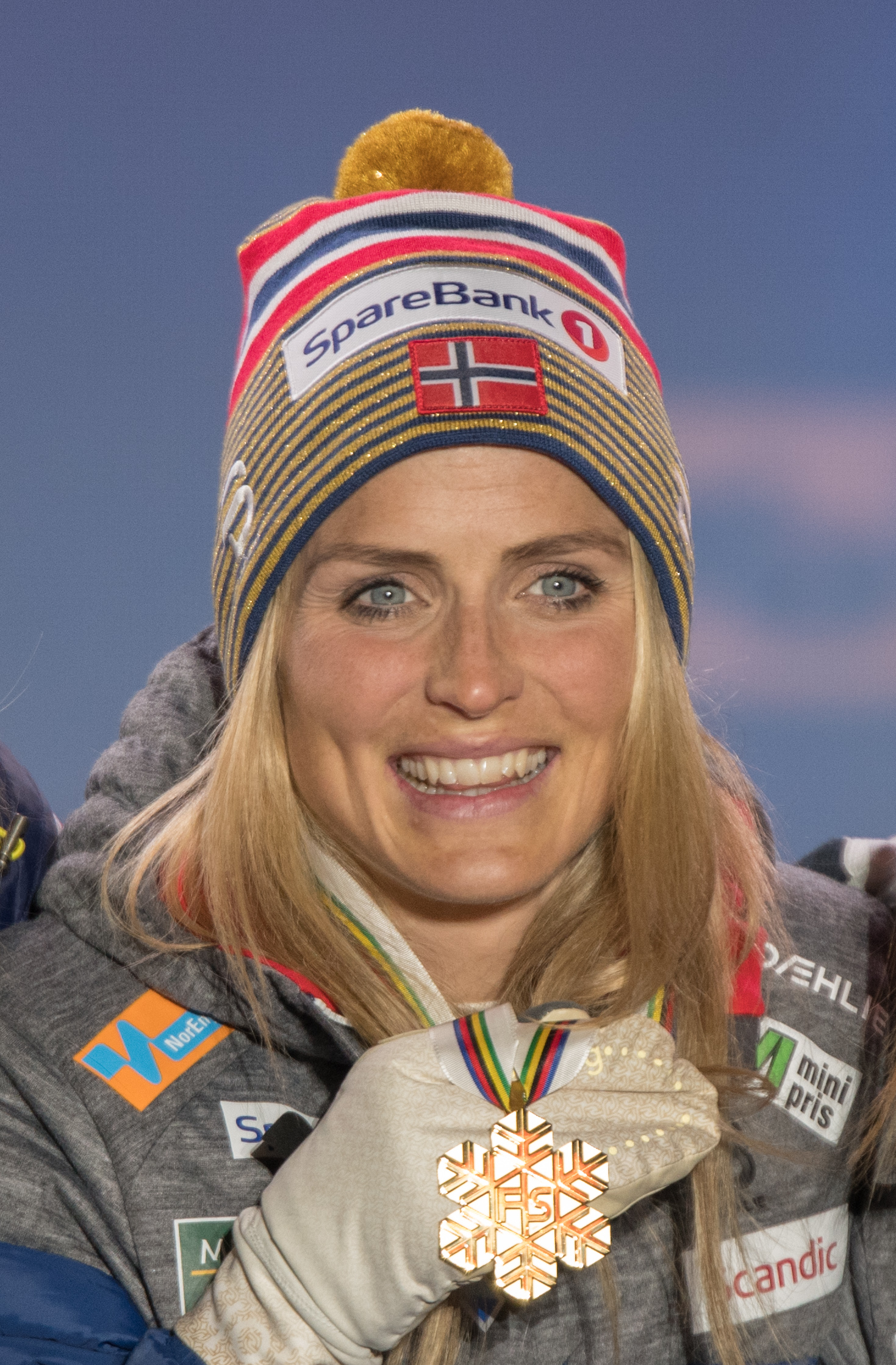 FIS Nordic Wolrd Ski Championships Seefeld 2019 - Medal Ceremony at the Medal Plaza. Picture shows Therese Johaug (NOR).